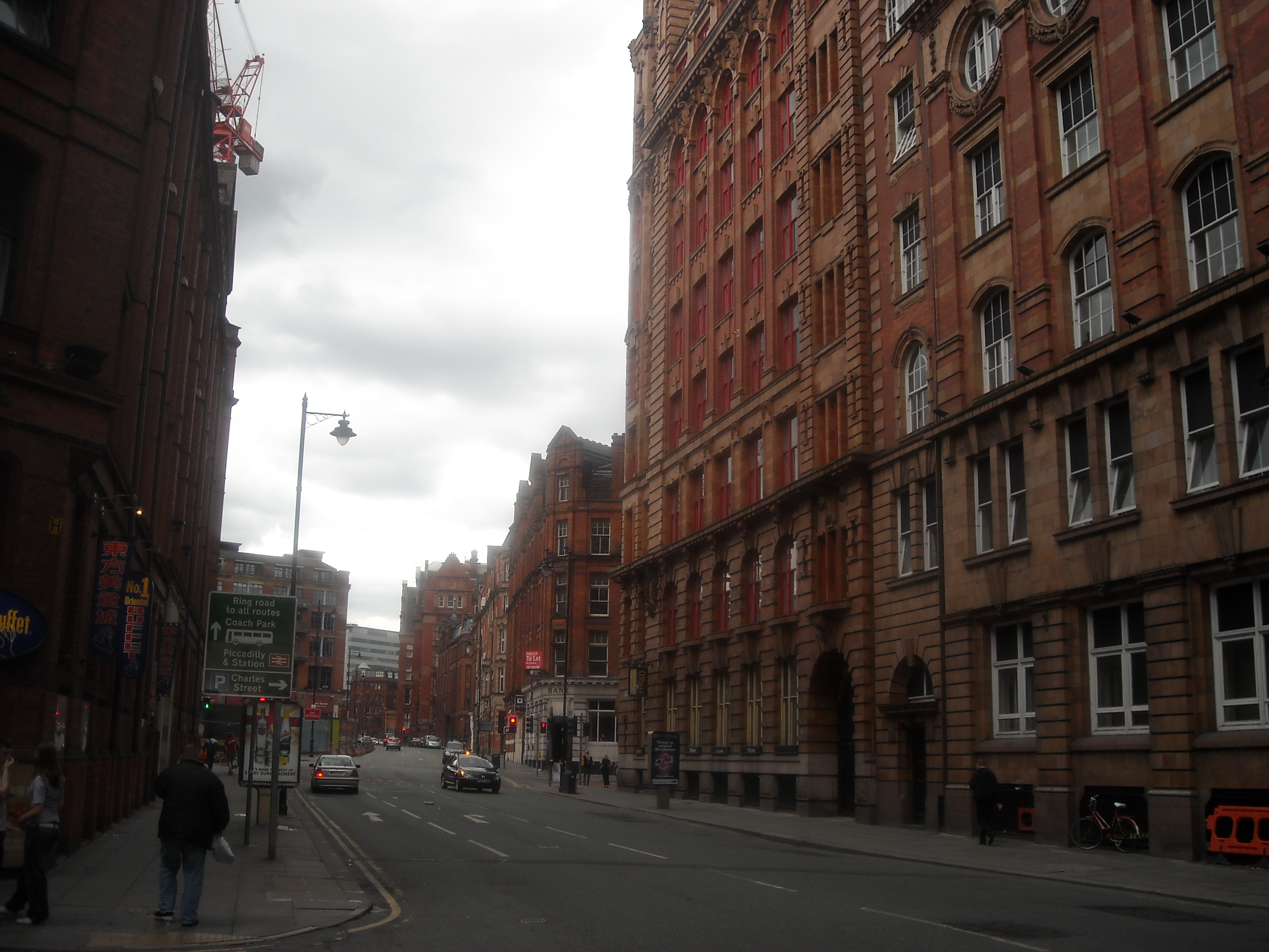 Whitworth Street, Manchester